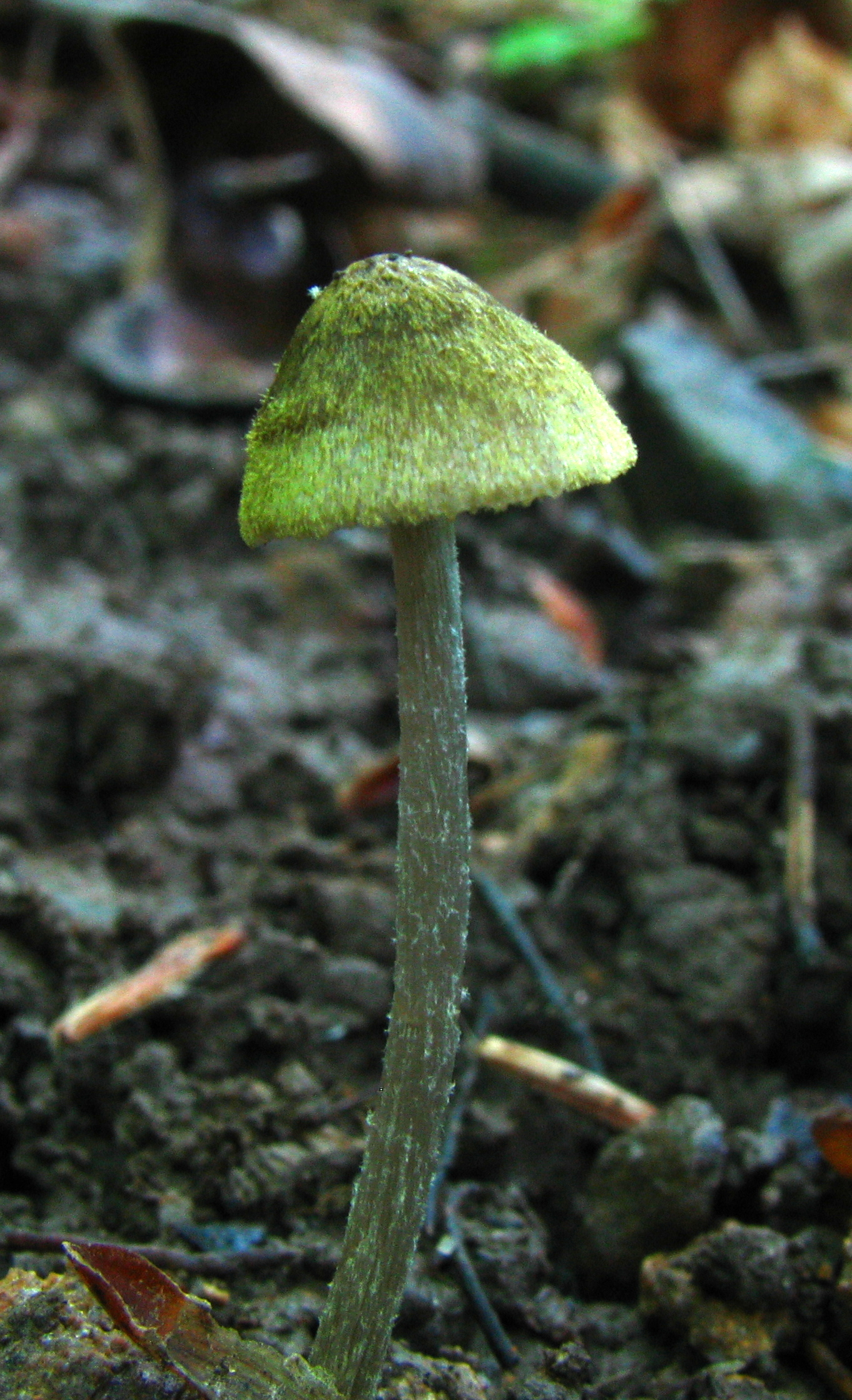 Pouzarella flavoviride Location: Wayne National Forest, Hocking county, Ohio, USA Observation Notes: This little mushroom is about one and a half centimeters tall. It was growing from the ground in deep shade under maple. This was a fortuitous find. I stopped for a drink of water, and when i set my pack down I noticed this little guy. No others like it were growing in the vicinity. I’m thinking Entoloma, but it’s so tiny. For more information about this, see the observation page at Mushroom Observer.